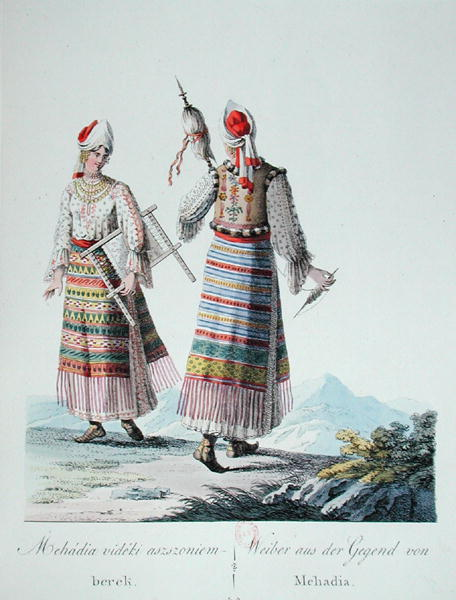 Women in traditional dress of the Mehadia region, illustration from a book 'Costumes de Hongrie' by J.H. de Bikkesy, 1810 (colour engraving)